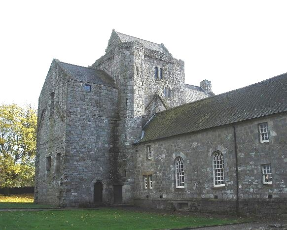 Torphichen Preceptory, Bathgate Hills.